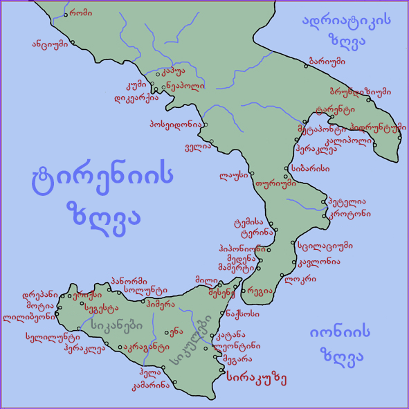 Map of Great Greece